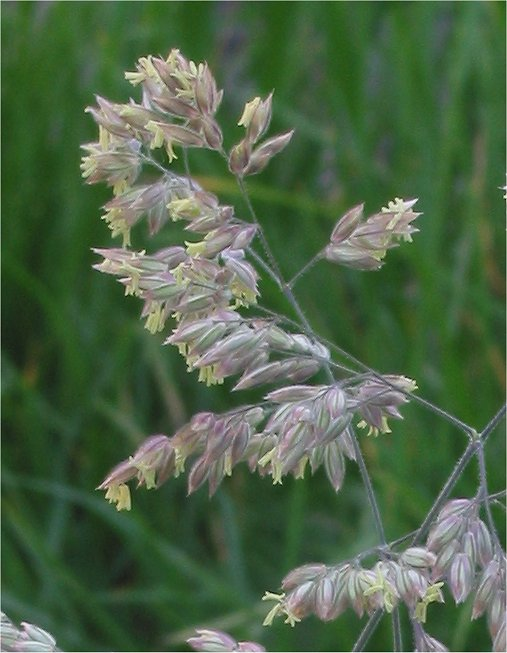 (Gestreepte witbol in bloei ) flowering Holcus lanatus